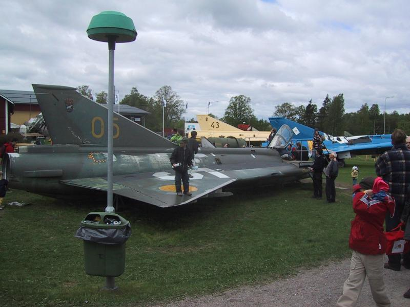 Saab J 35D Draken fighter aircraft (all three), at Flygvapenmuseum (Swedish Airforce Museum), Malmen, near Linköping, Sweden